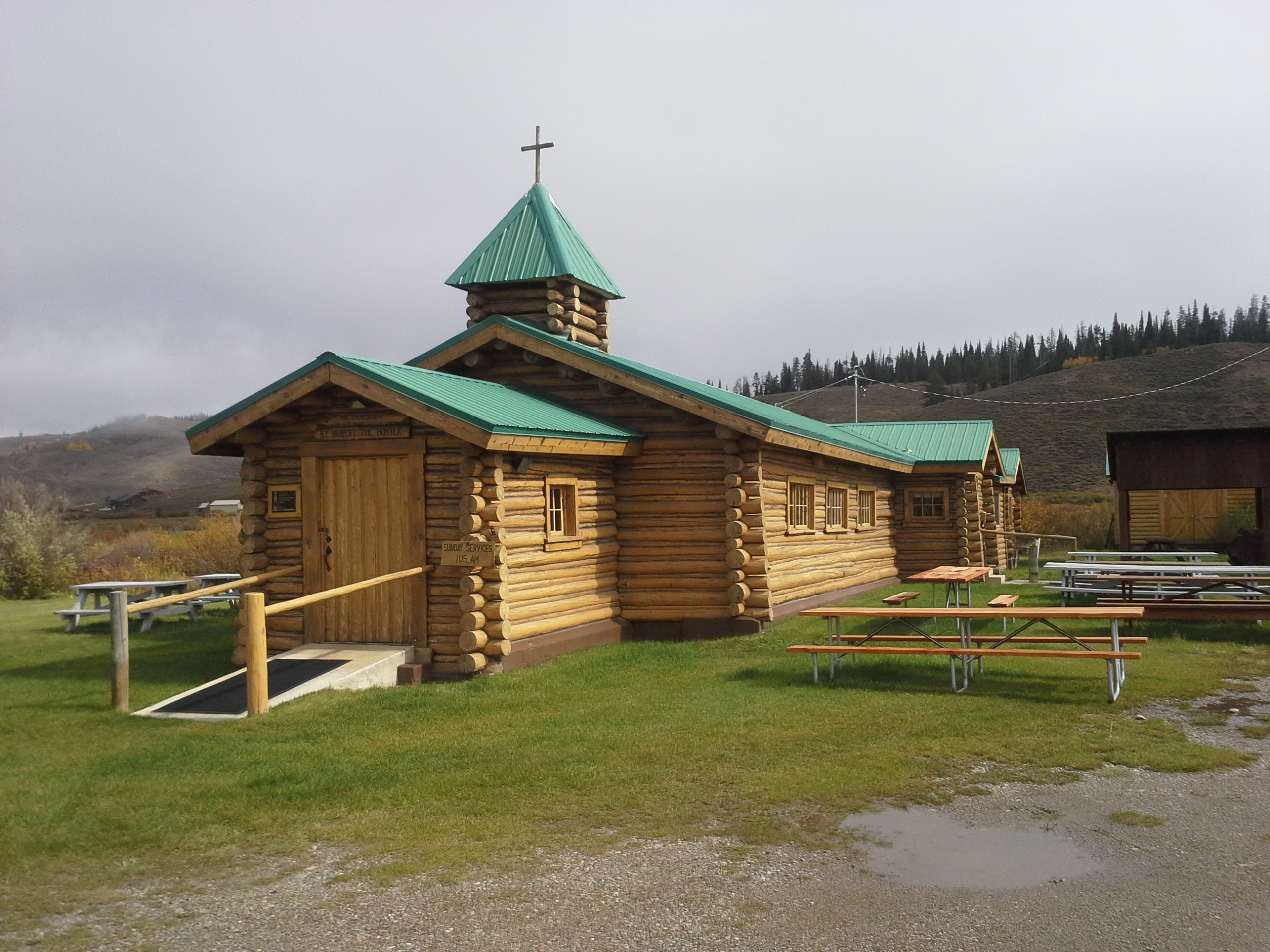 Church of St. Hubert the Hunter and Library, U.S. Routes 189 and 191 Bondurant